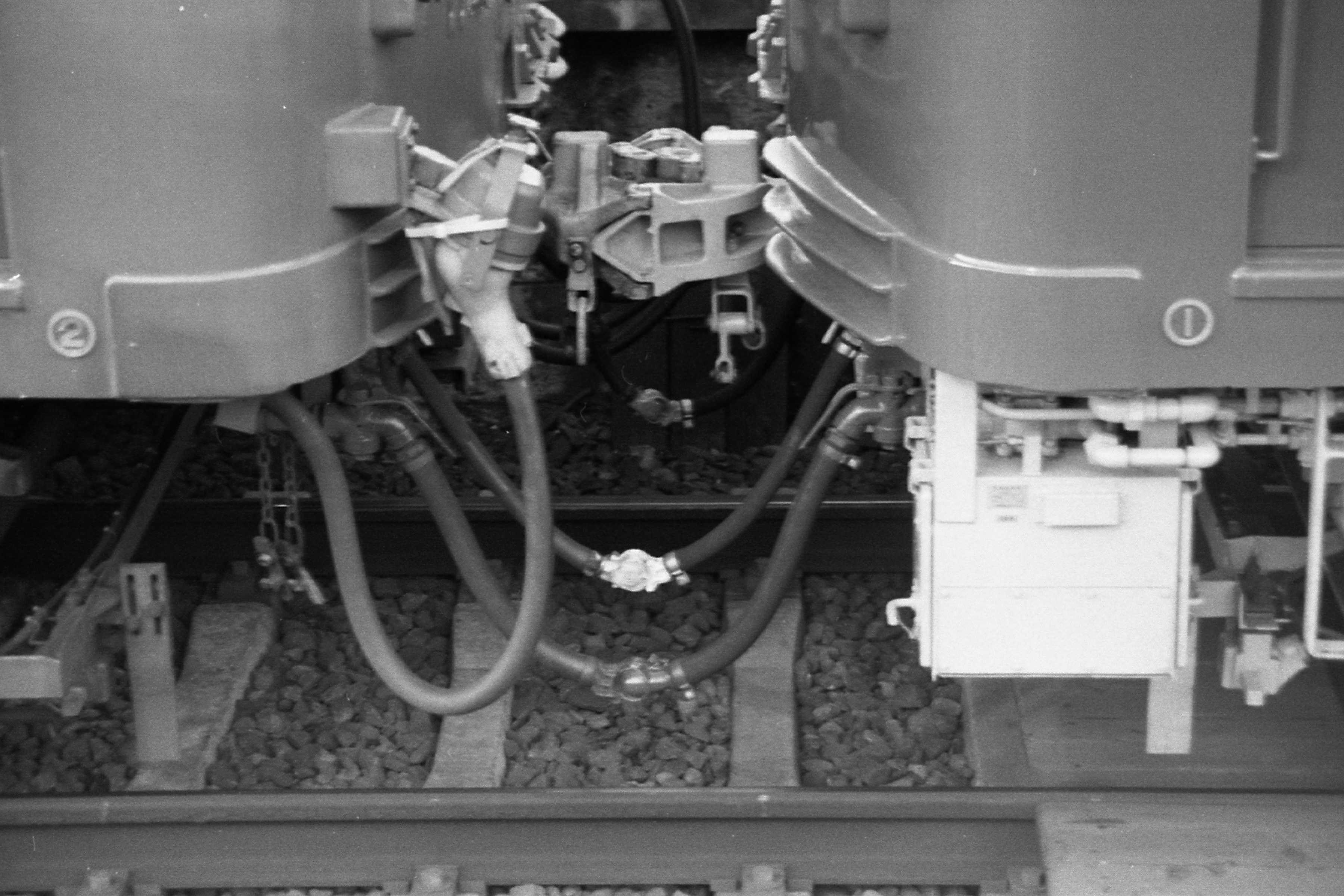 Connection between two Keikyu 1000(I) units. Left side units kept the "three-phase AC jumper connector" which was taken away from this type of trains at the timing of regular inspection after January 1985. The time the picture taken, units still kept the connector was rarely found. Right side unit have a box which has function to control mechanical and electrical couplers between units.